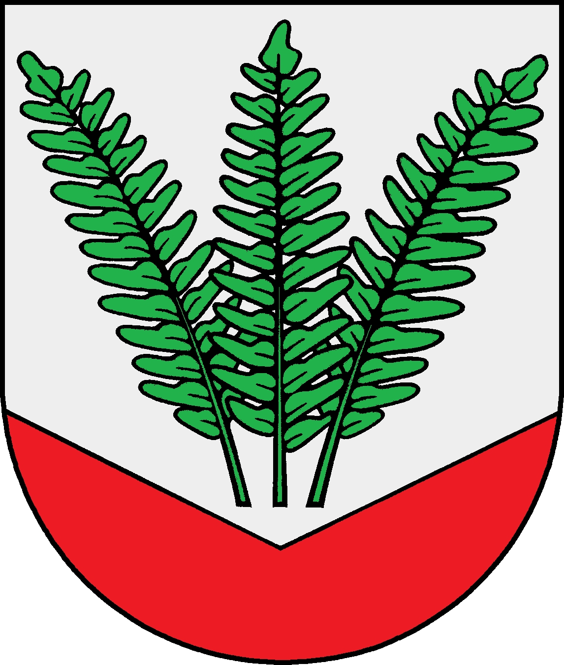 Coat of arms of the municipality Fahrenkrug in Schleswig-Holstein, Germany.